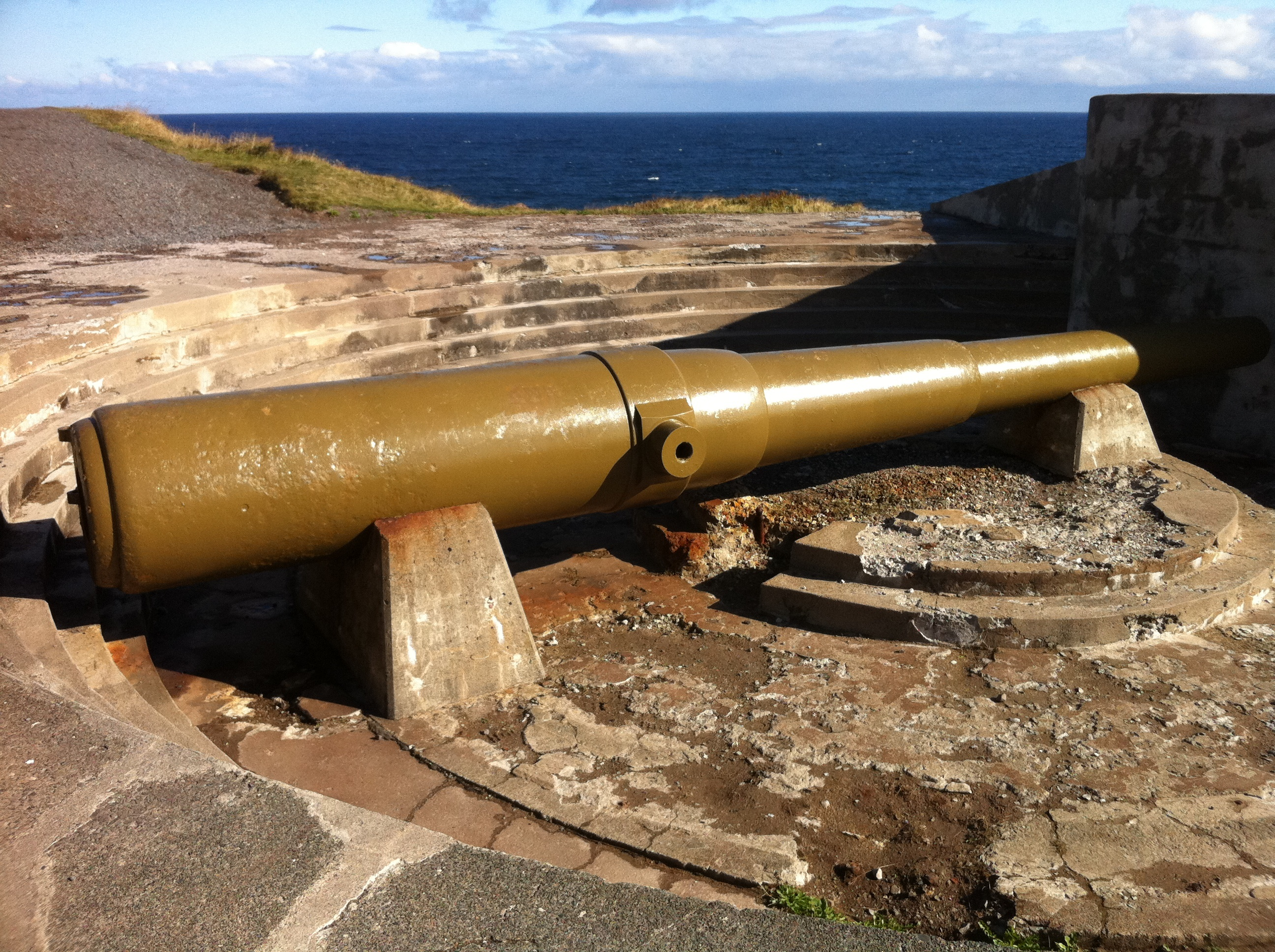 Photograph of US M1888 10-inch coast-defence gun at Cape Spear, Newfoundland. Originally installed at Battery Harker, New Jersey, and transferred to Canada in World War II as part of Lend-Lease.